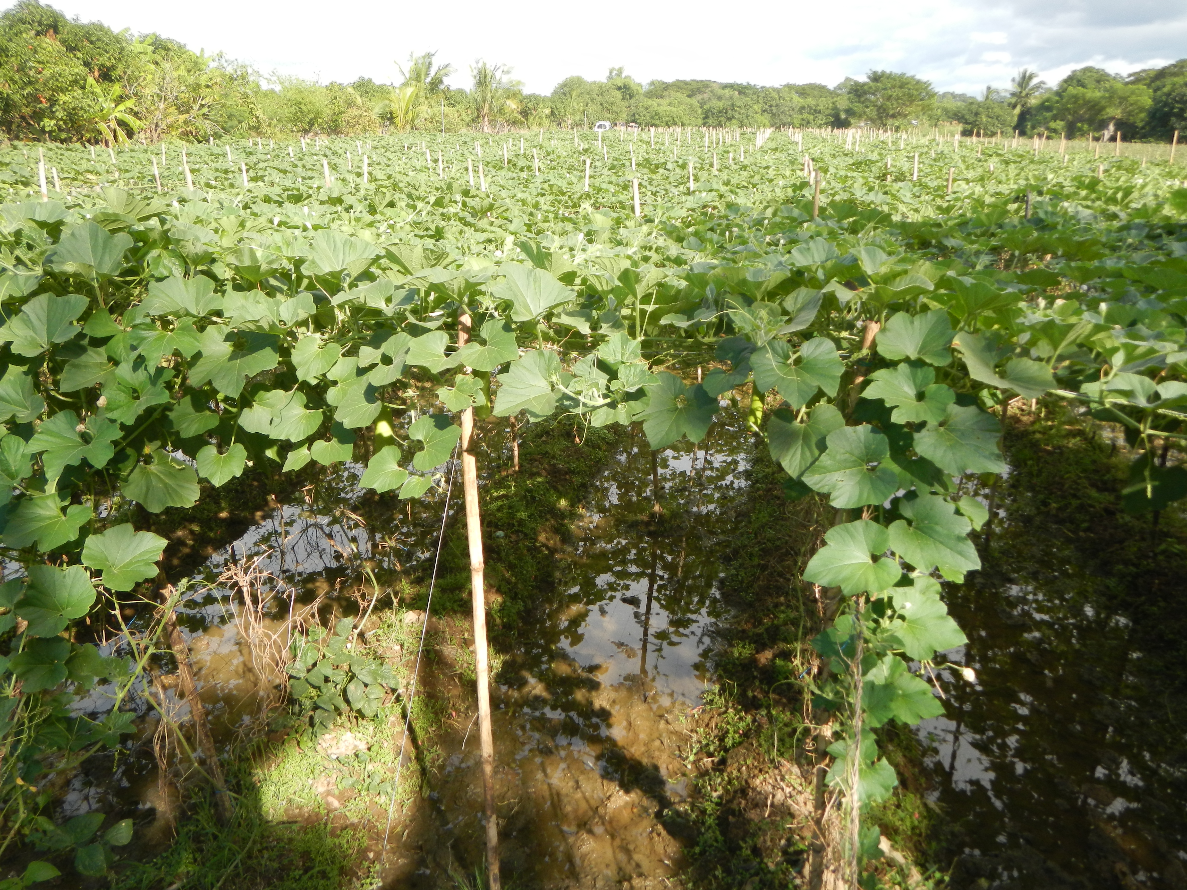 Photos taken upon the condition of Philippine Typhoon Melor (Nona); Paddy fields of Baliuag, Bulacan and Pampanga; Barangay San Jose, San Luis, Pampanga, Calabash Cucurbitaceae in the Philippines (Cucurbita lagenaria-villosa Blanco) beside Barangay Concepcion, San Simon, Pampanga, (along the Baliuag, Bulacan-San Simon, Pampanga Road interconnecting with the San Jose, San Luis-Calantipe, Apalit, Pampanga Farm to Market Road (accessed from the Pan-Philippine Highway or Maharlika Highway (Cagayan Valley Road, Baliuag-Pulilan-Guiguinto, Bulacan) Pan-Philippine Highway, also known as the Maharlika "Nobility/freeman" Highway or Asian Highway 26, Cagayan Valley Road, and on the other side, in Apalit, Pampanga from and along MacArthur Highway or Manila North Road).